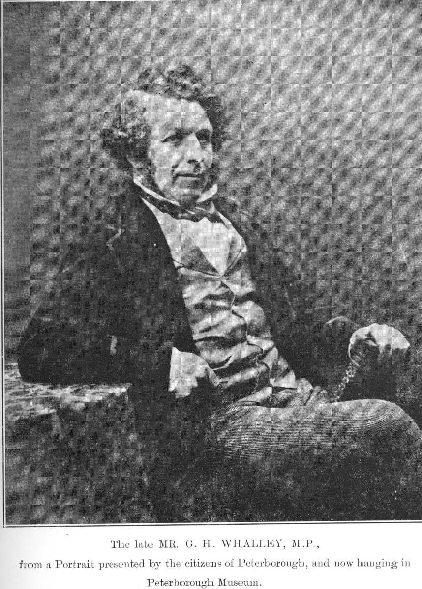 G.H. Whalley, MP